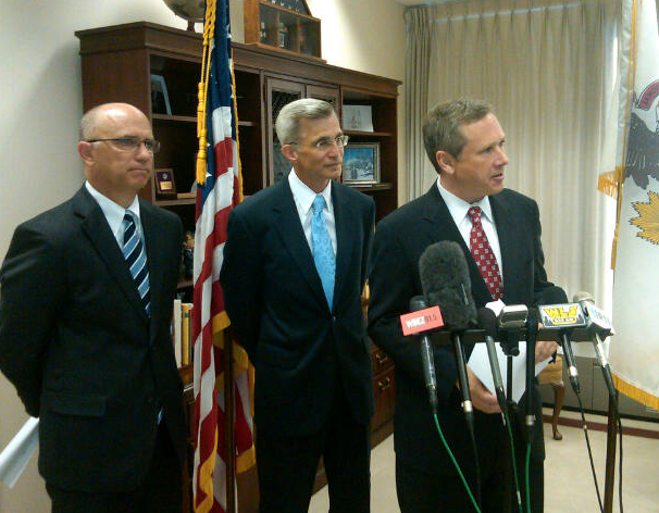 Senator Mark Kirk (far right) recommends John Tharp (far left) as nominee for the United States District Court of the Northern District of Illinois.